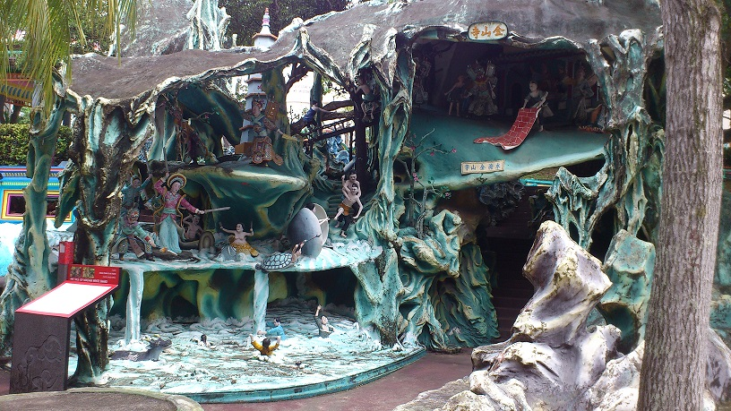 Diorama of a scene from the Legend of the White Snake at Haw Par Villa, Singapore. Bai Suzhen floods Jinshan Temple.